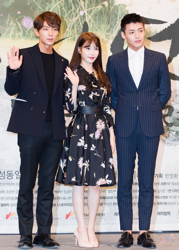 "Moon Lovers - Scarlet Heart Ryeo" press conference, 24 August 2016